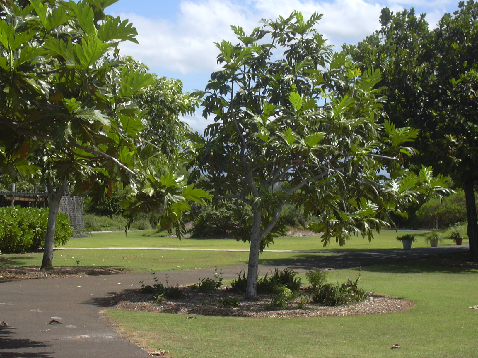 Artocarpus altilis (habit). Location: Maui, Maui Nui Botanical Garden